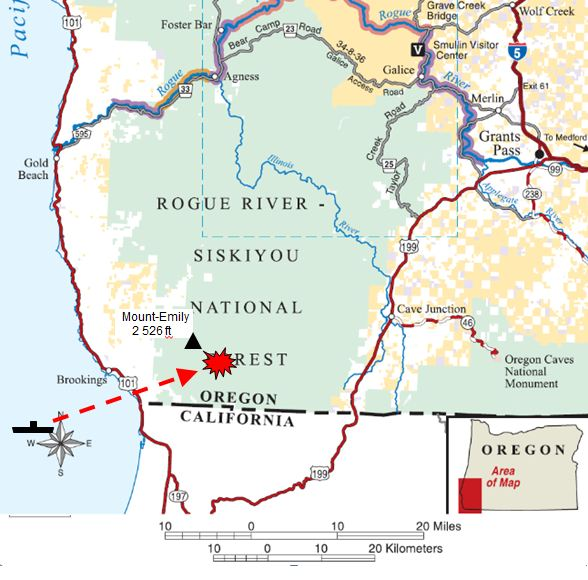 Schema of the Lookout air raids on a map of the south of Oregon.